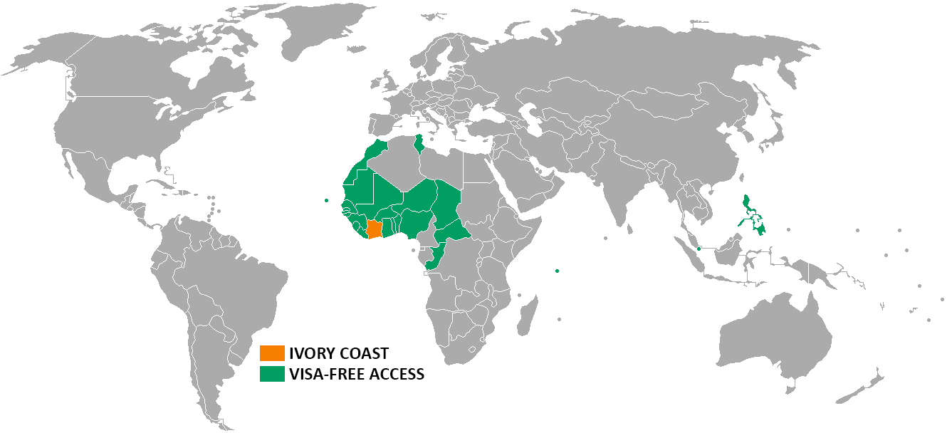 Visa policy of Cote d'Ivoire Ivory Coast Visa exempt